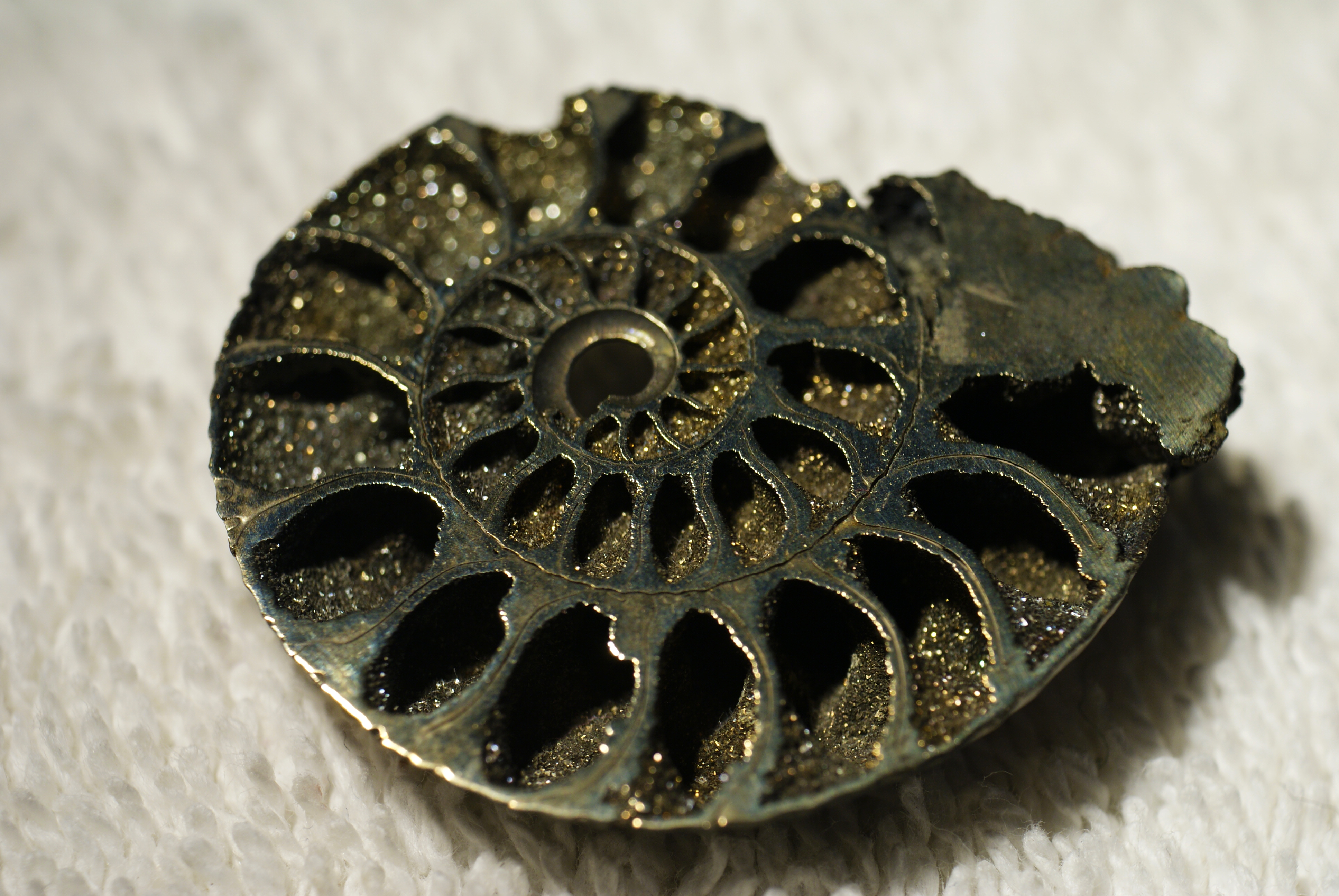 Pyriteizd ammonite